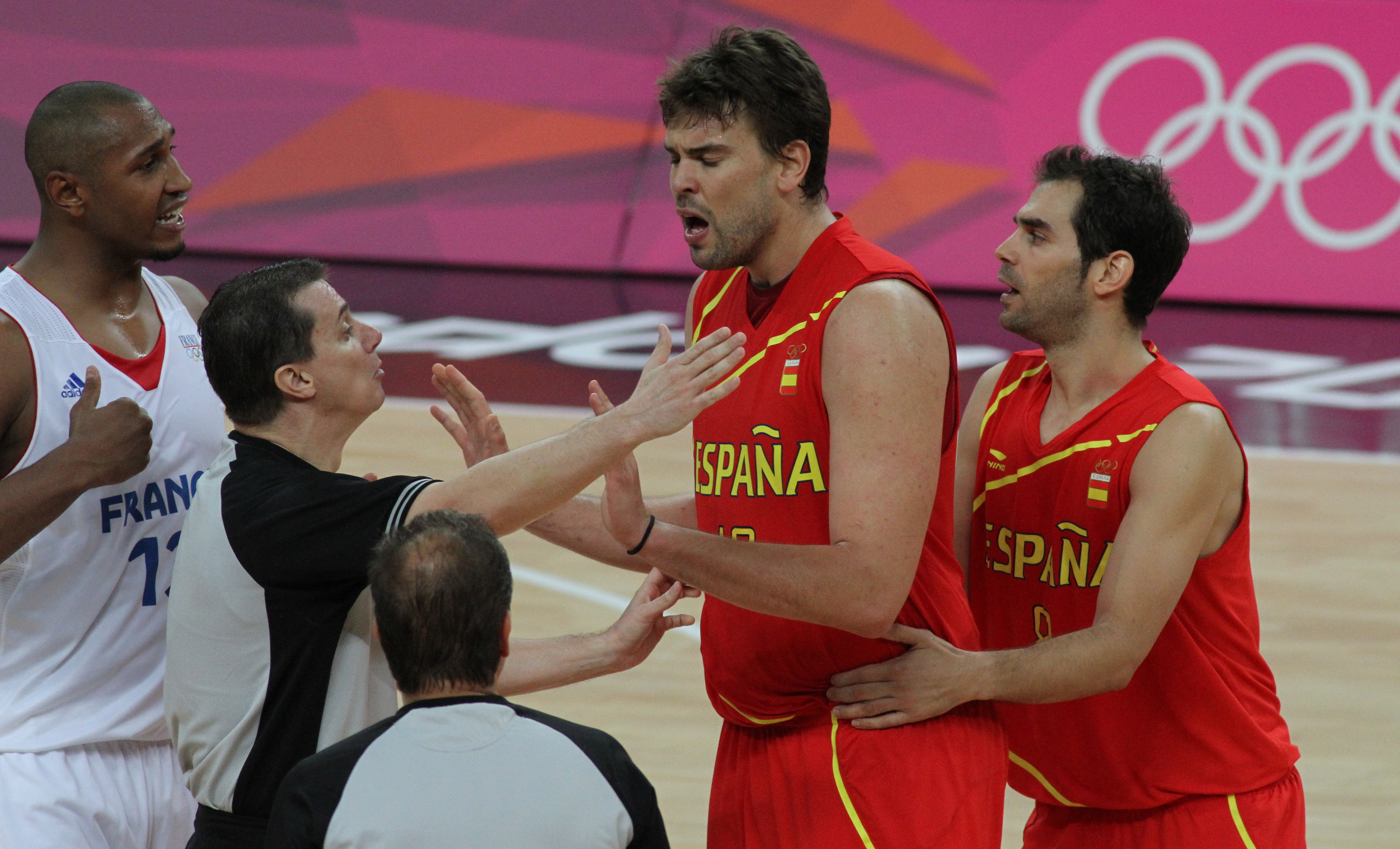 Marc Gasol of Spain argues with an official. Boris Diaw (left) and Jose Calderon (right) intervene.